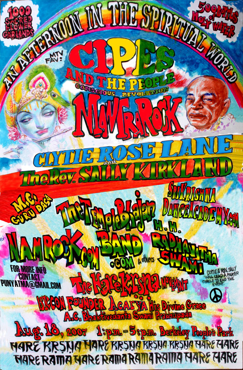 Promotional poster for the Mantra-Rock Dance commemorative event held on August 18, 2007 in Berkeley, CA